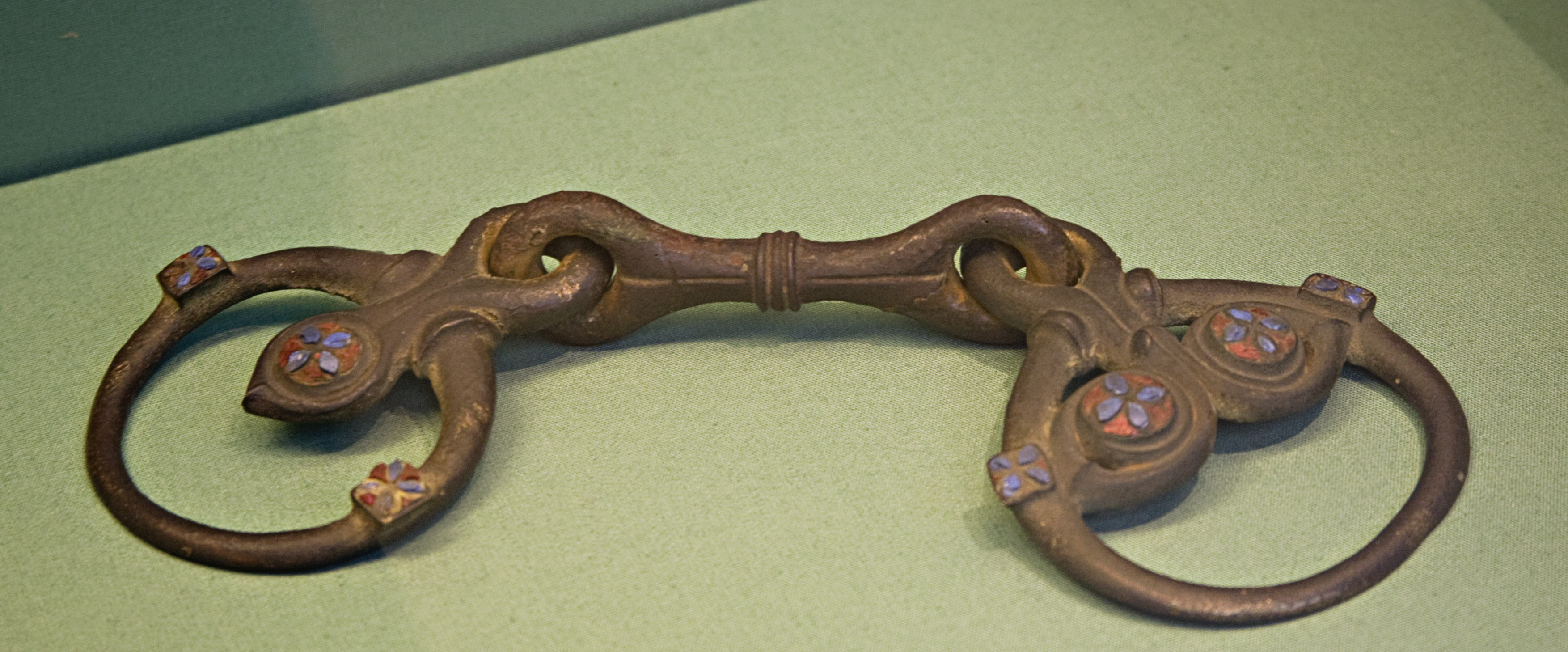 Snaffle bit from the British Museum. Tag on exhibit reads: "Bridle-bit, AD50-100 Rise, East Yorkshire. Given by Sir A W Franks PRB 1866, 7-14,2" See BM database entry for more details.